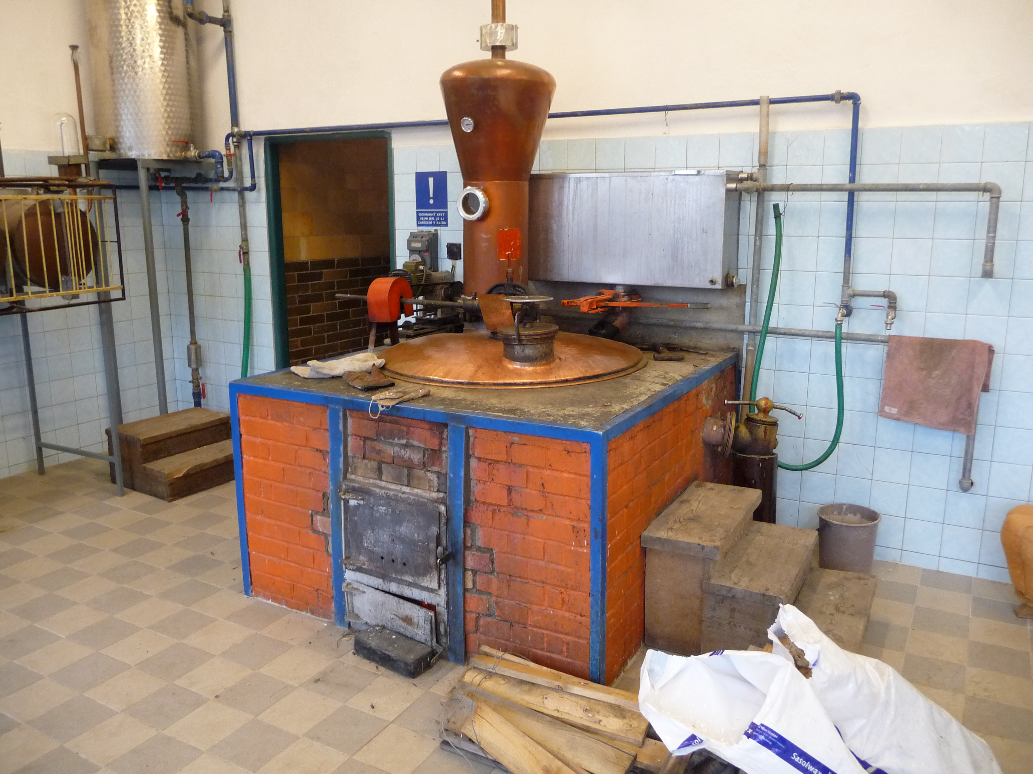 Cauldron, Hvozdná distillery